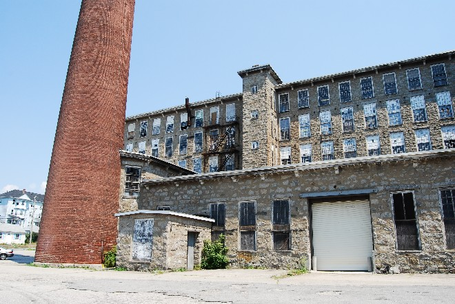 Laurel Lake Mill No.1, Fall River, Mass.